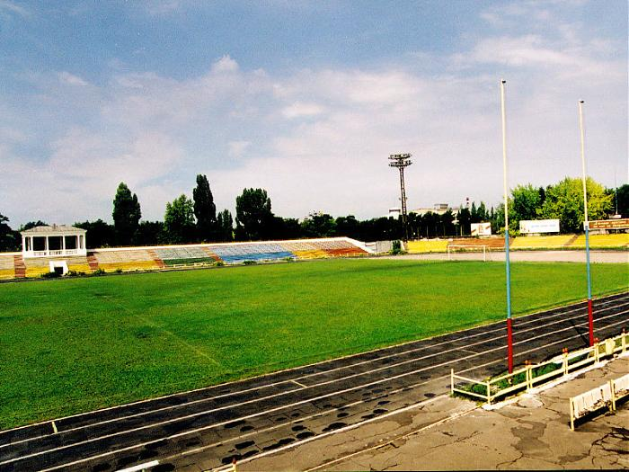 Blooming Stadium in Kramatorsk, Donetsk Oblast, Ukraine, in 2008